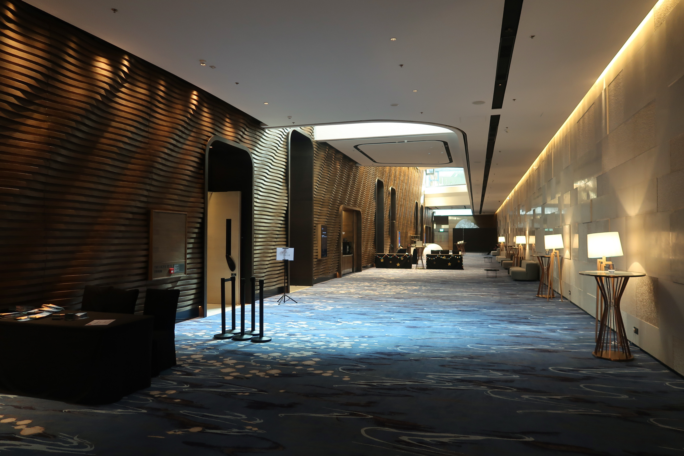 Hong Kong Ocean Park Marriott Hotel Grand Ballroom Lobby